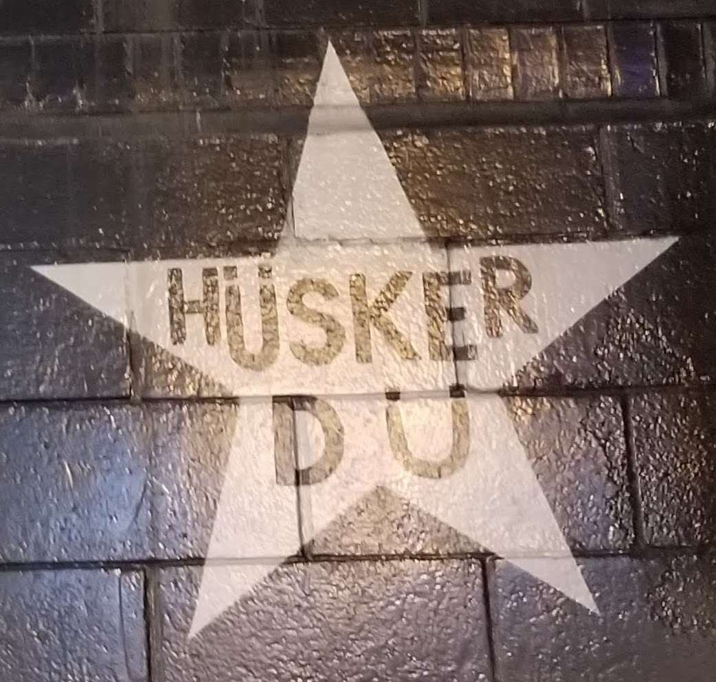 Star representing the band Husker Du on the outside mural of the Minneapolis nightclub First Avenue